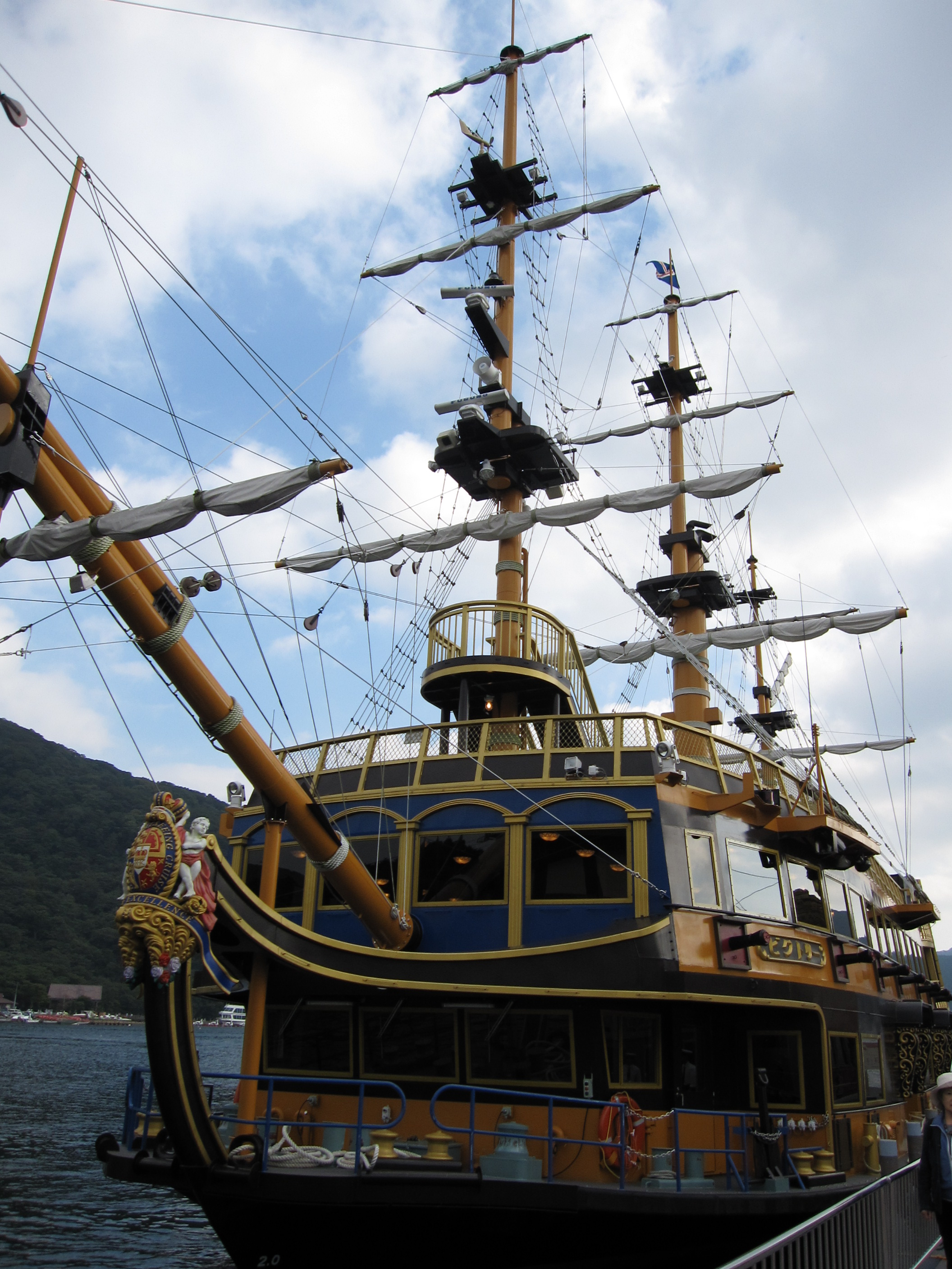 The Cruise Victory in Lake Ashi, Hakone, Kanagawa Prefecture, Japan